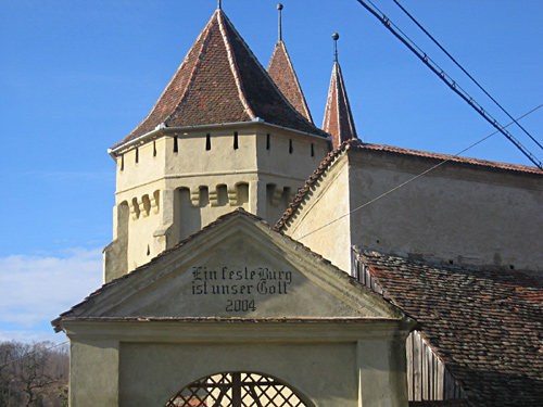 church of Șeica MicăRomână: Biserica din Șeica Mică